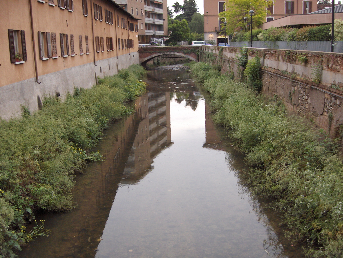 View of torrente Arno in Gallarate (Varese, Italy)